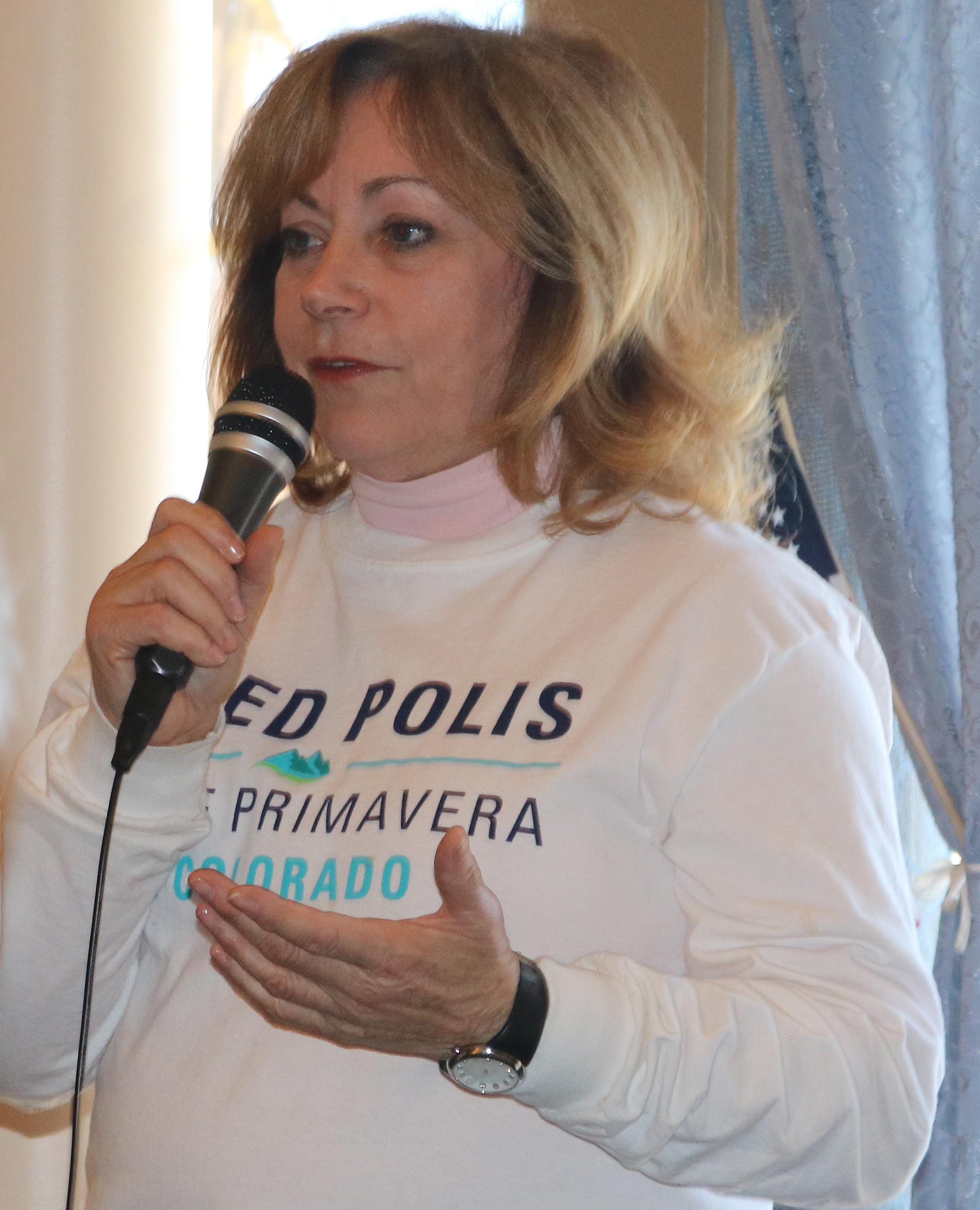 Dianne Primavera, a politician from Colorado.